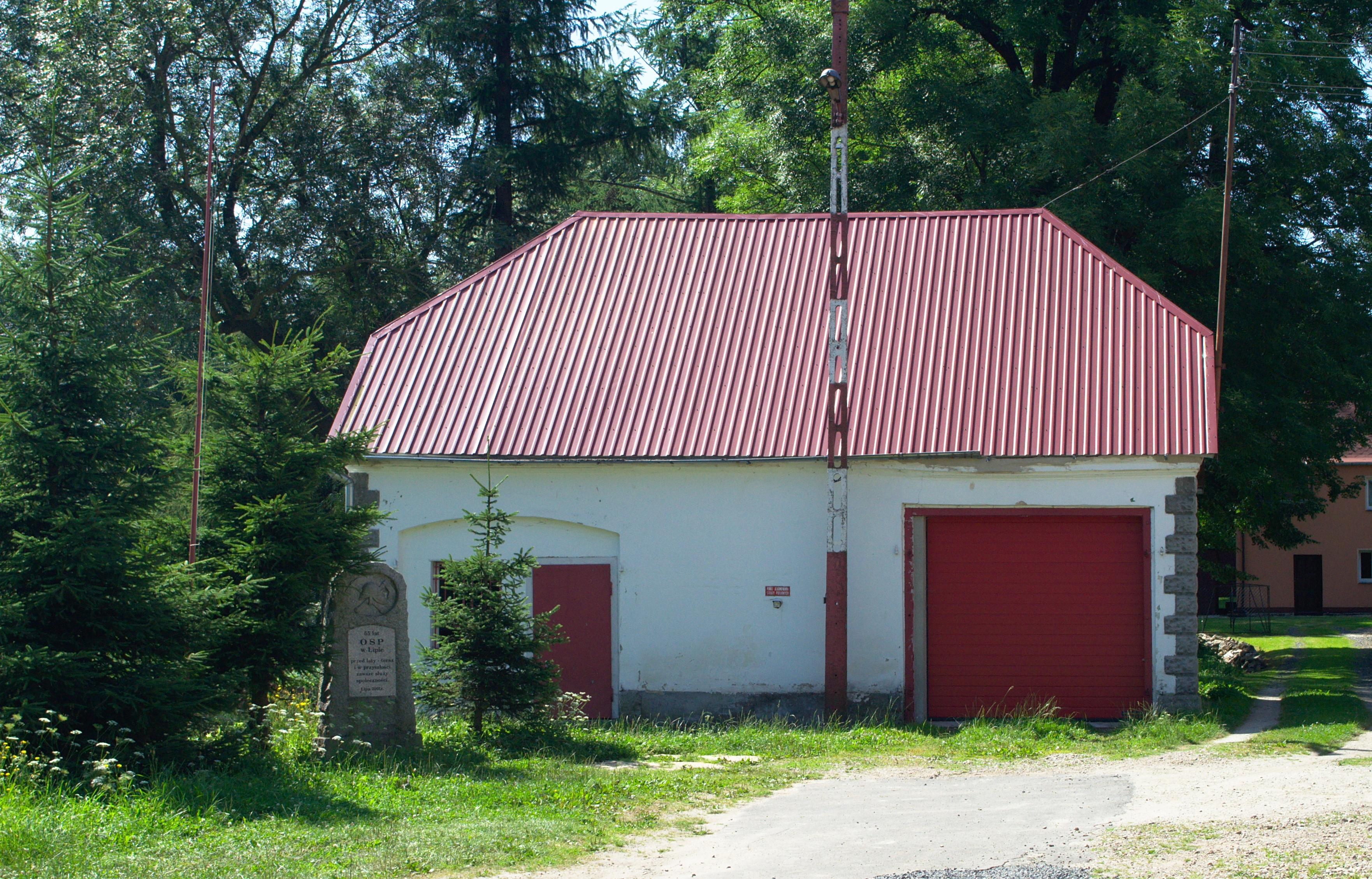 Fire house in Lipa